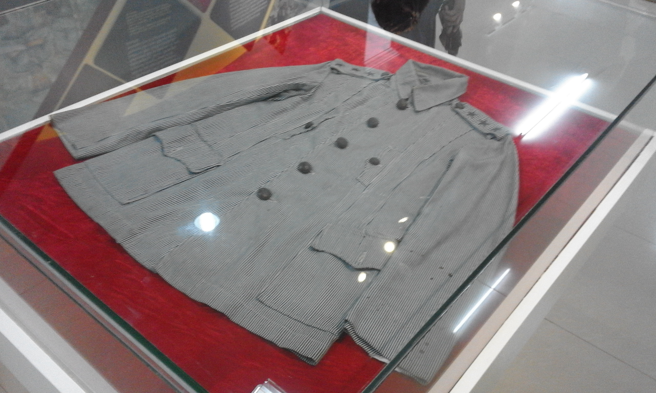 Rayadillo Uniform of Gen. Miguel Malvar in permanent exhibit. Encased in glass at the Malvar Shrine Museum in Sto. Tomas, Batangas. Taken with cellphone camera.